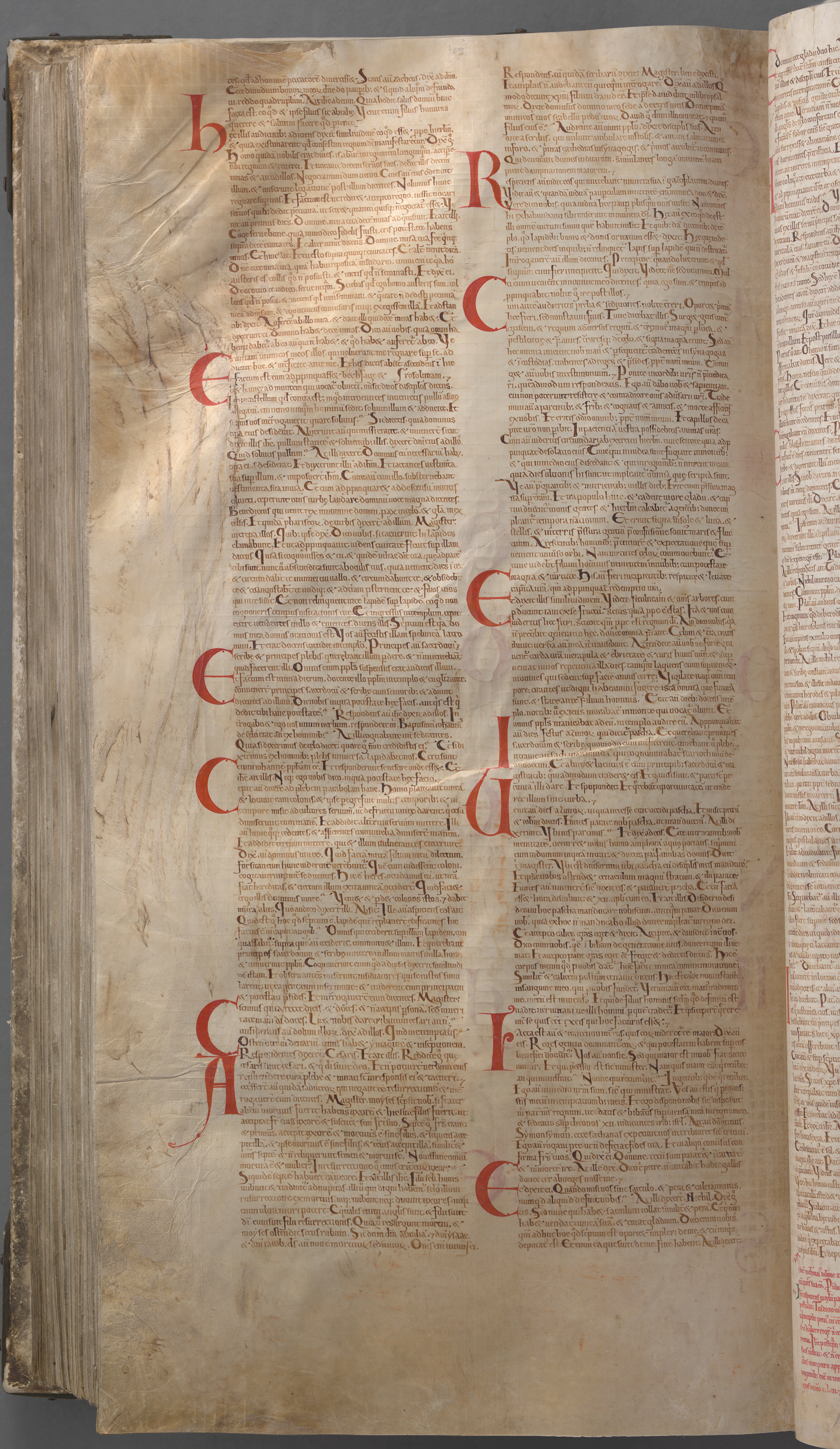 Giant Book) is the largest extant medieval manuscript in the world. It is also known as the Devil's Bible because of a large illustration of the devil on the inside and the legend surrounding its creation. It is thought to have been created in the early 13th century in the Benedictine monastery of Podlažice in Bohemia (modern Czech Republic). It contains the Vulgate Bible as well as many historical documents all written in Latin. During the Thirty Years' War in 1648, the entire collection was taken by the Swedish army as plunder, and now it is preserved at the National Library of Sweden in Stockholm, though it is not normally on display.